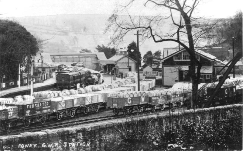 Fowey railway station, Cornwall, United Kingdom - looking towards the river and Lostwithiel. Many of the wagons in the foreground goods yard are for china clay traffic to the jetties on the far side of the station. In the station are three trains: on the left is the public service to Golant and Lostwithiel where a connection is made into Cornish main line services; in the middle siding are the carriages for the workman's train that runs from and to St Blazey each day; on the right a train of empty china clay wagons passes through on the way to the marshalling yard at St Blazey behind a Great Western Railway 0-6-0ST locomotive.